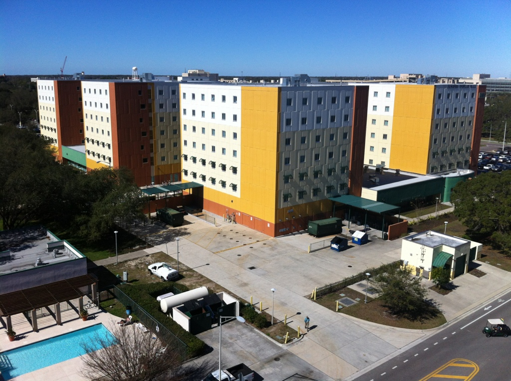 Juniper-Poplar Hall at the University of South Florida.